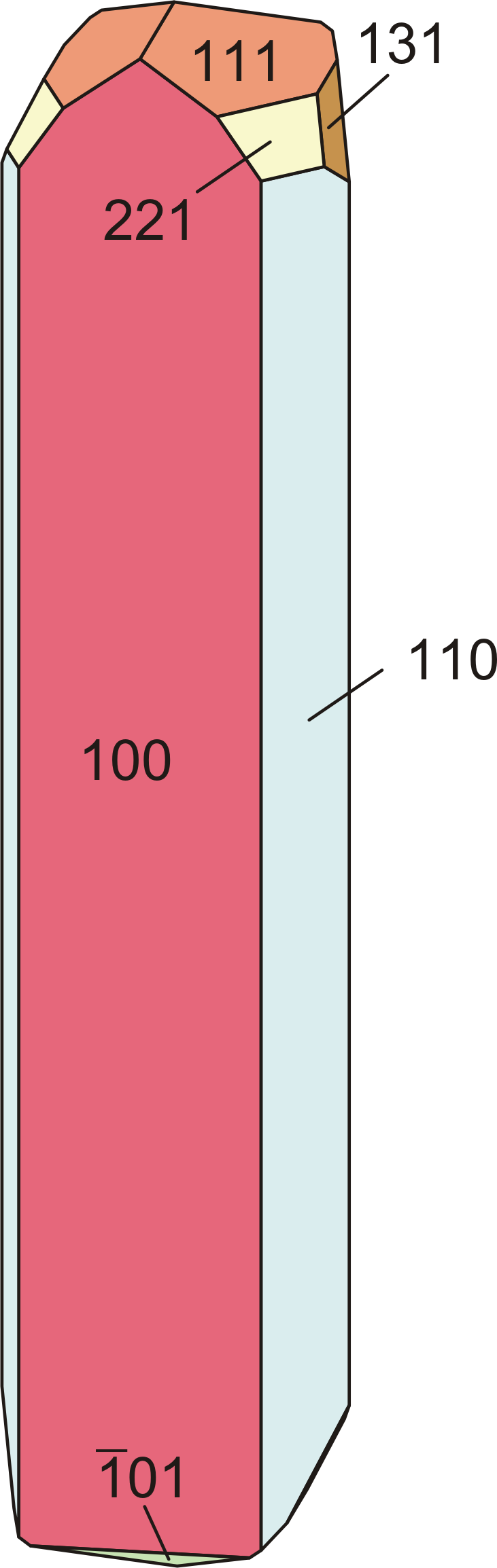 Drawing of a Skorpionite crystal from the Skorpion Zinc Mine, Namibia; reference: Krause et al. (2008), European Journal of Mineralogy vol. 20, p. 271–280